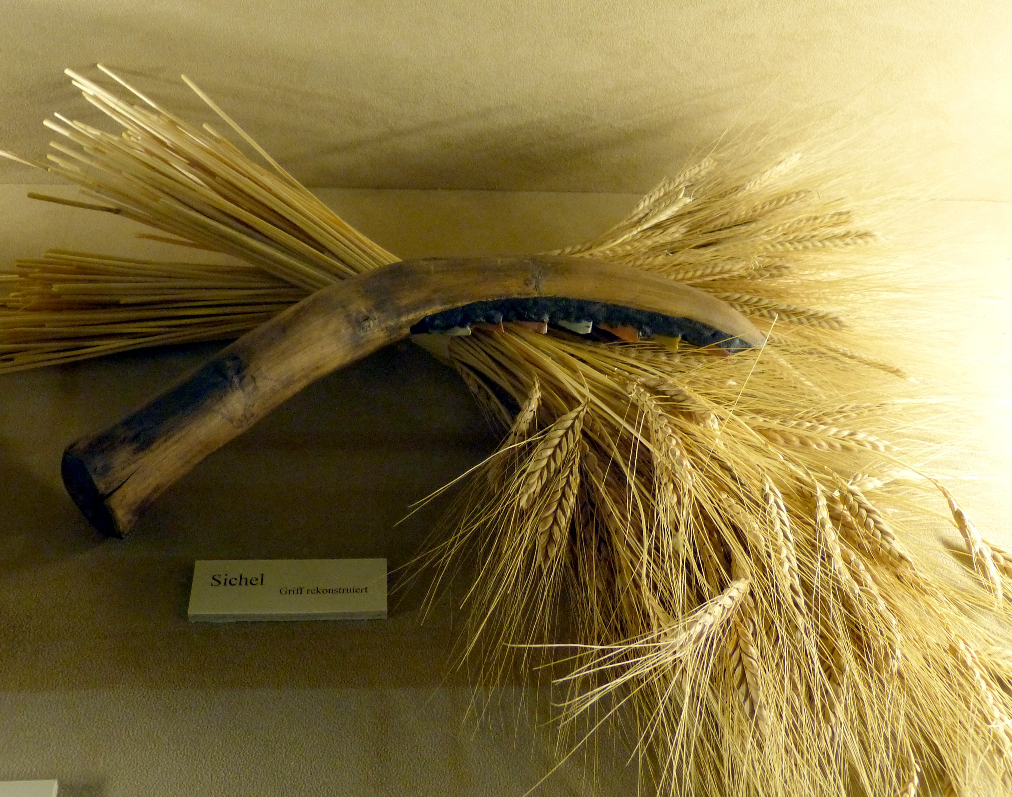 Natural History Museum, Vienna ( Austria ). Neolithic sickle.